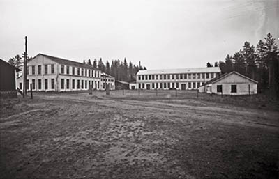 Tikkakoski gun factory in Finland